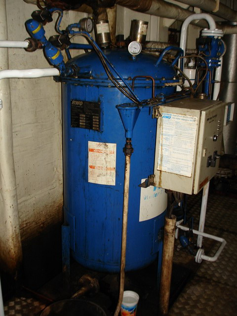 Centrifugal Oily Water Separator